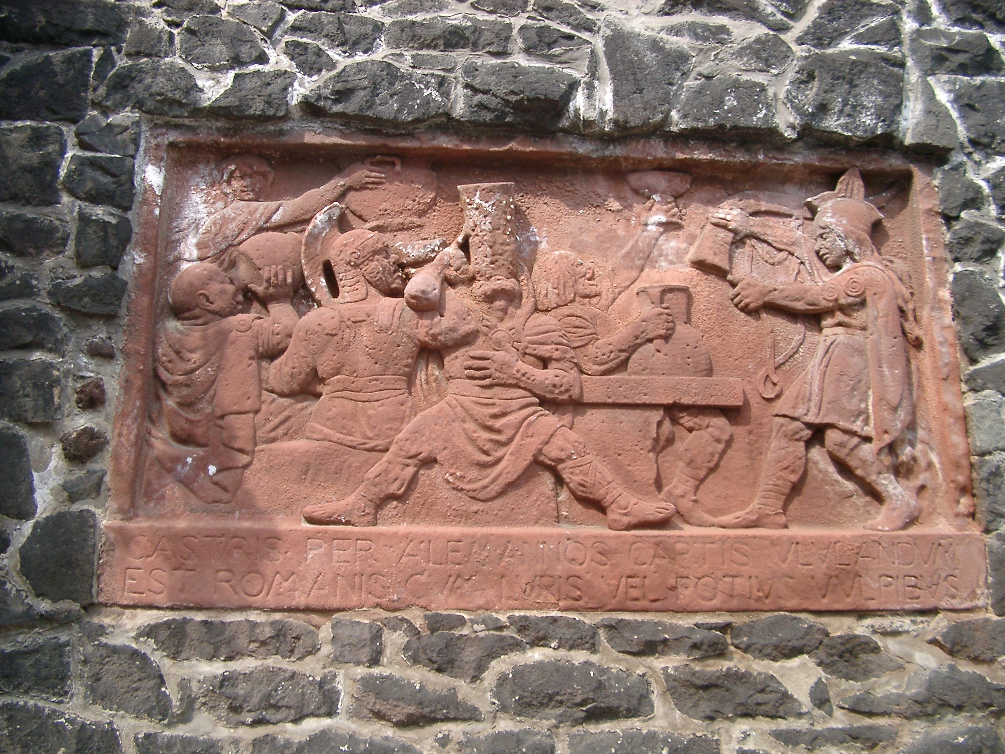 relief in Bonn at southeastern corner of Roman castellum, where now traditional students' club "Alemannen" has its home since 1844. Latin inscription: Castris per alemannos captis ululandum est Romanis cum lupis vel potius cum vulpibus. - Now that the Roman castle is captured by the Germans (or "Alemanni") the Romans must howl with the wolfs or better with the foxes. - Foxes are called young members of German stundents' clubs which must do some service for older colleagues.